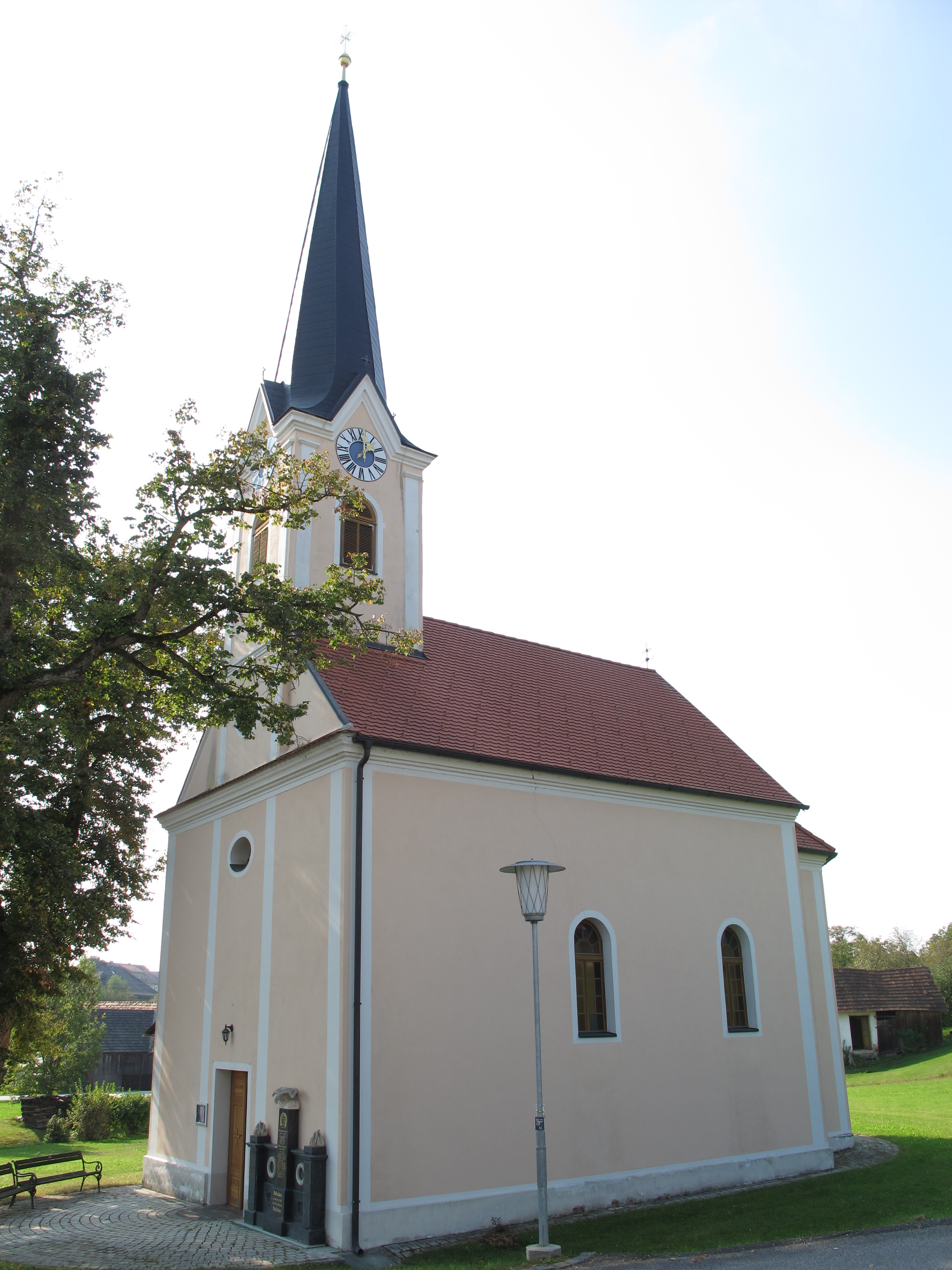 Kapelle Lindegg